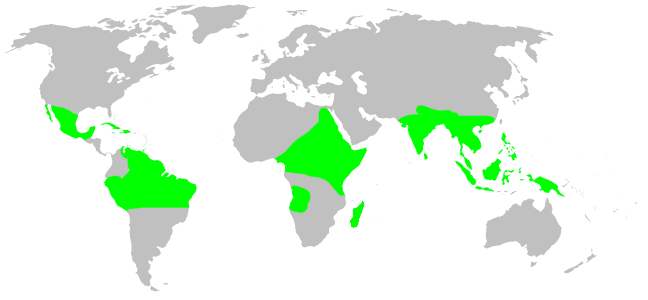 Ochyroceratidae habitat distribution, drawn after Platnick: World Spider Catalog 7.0. This is not a precise rendering of the distribution! If you have better information, please replace this map, or send me the info, and i will redraw it.